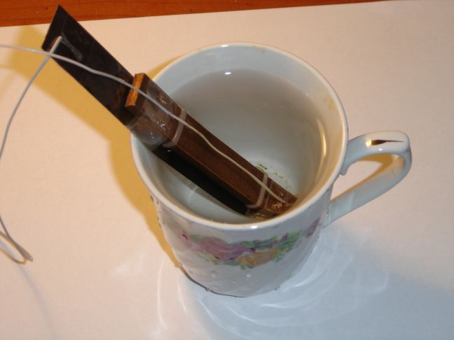 Buzała before boiling, a water heating device improvised by attaching two razor blades separated by matches and wires to the mains